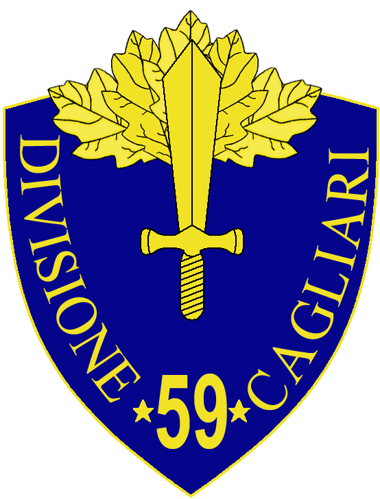 59a Divisione Fanteria Cagliari insignia, Regio Esercito, Italy, WWII